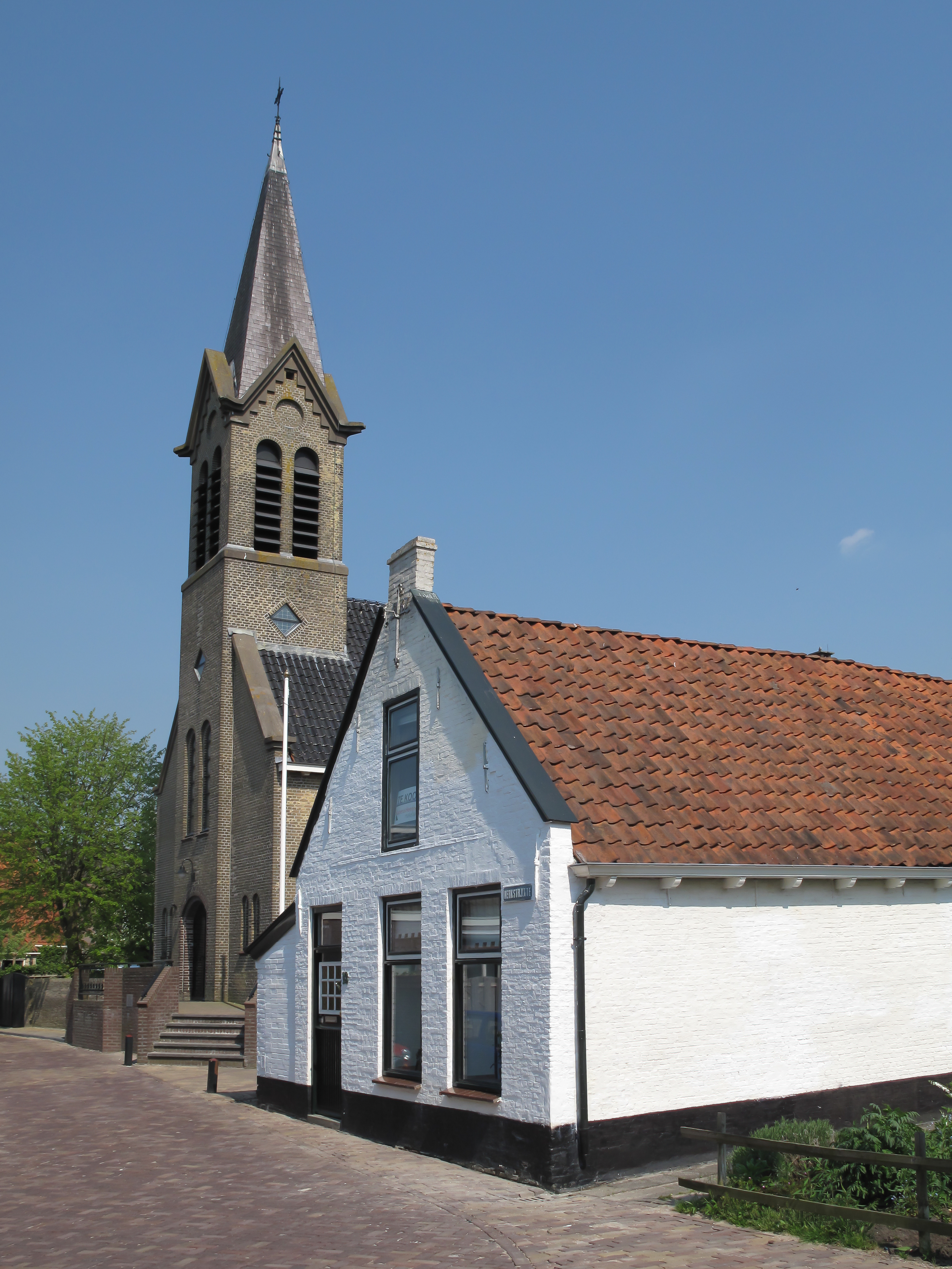 Woudsend, church: de Sint Michaëlskerk